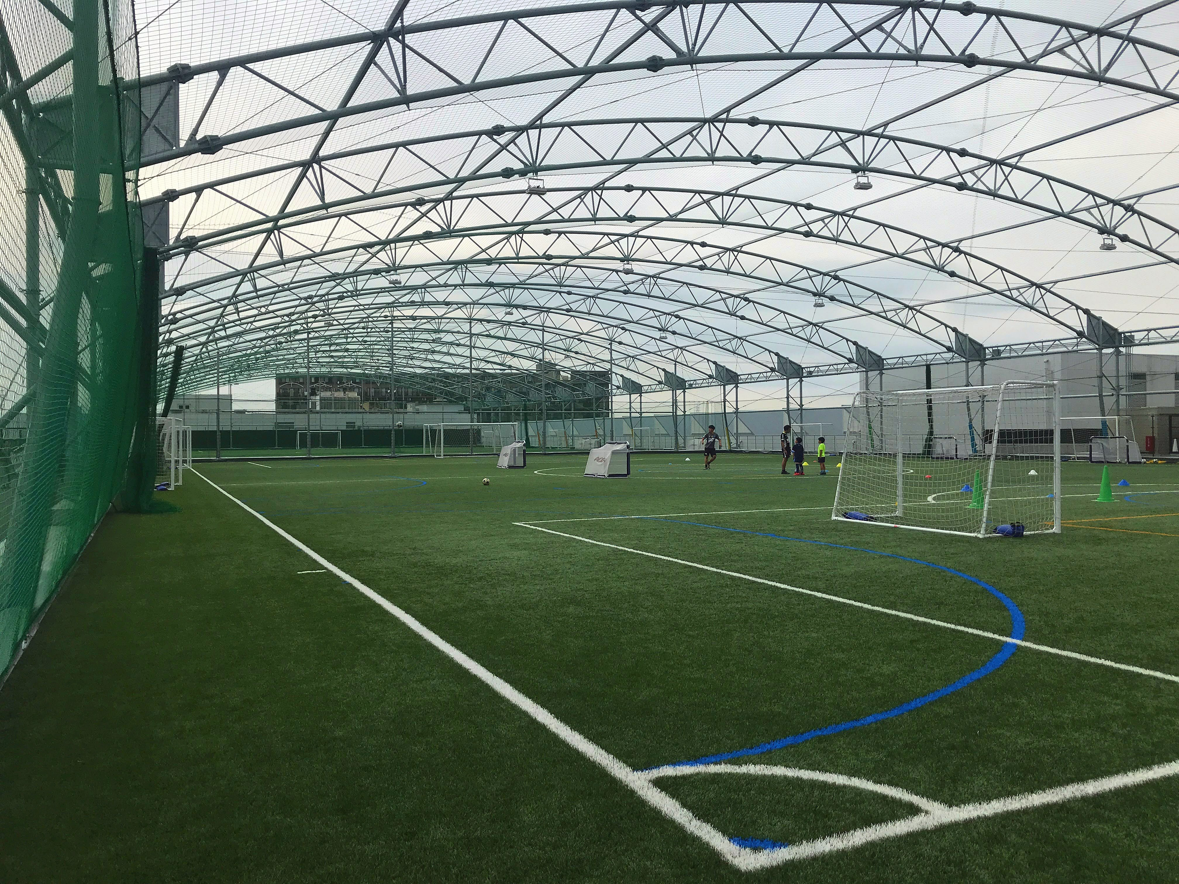 Futsal court "AOBA SKY FiELD" at Aoba Sports Park on the roof of Nippa train base on the Yokohama municipal subway Blue line.